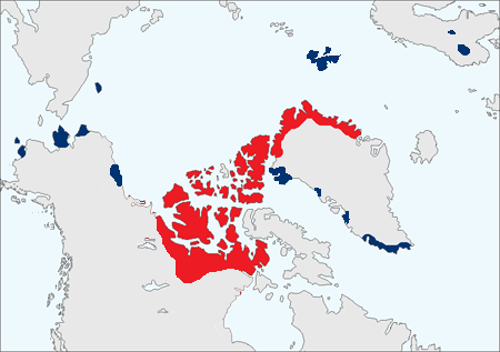 The map shows the distribution of muskox. The red colour shows the “original“ distribution of muskoxen (in the beginning of the 19th century). The blue colour shows the areas where muskoxen have been introduced with success in the 20th century.